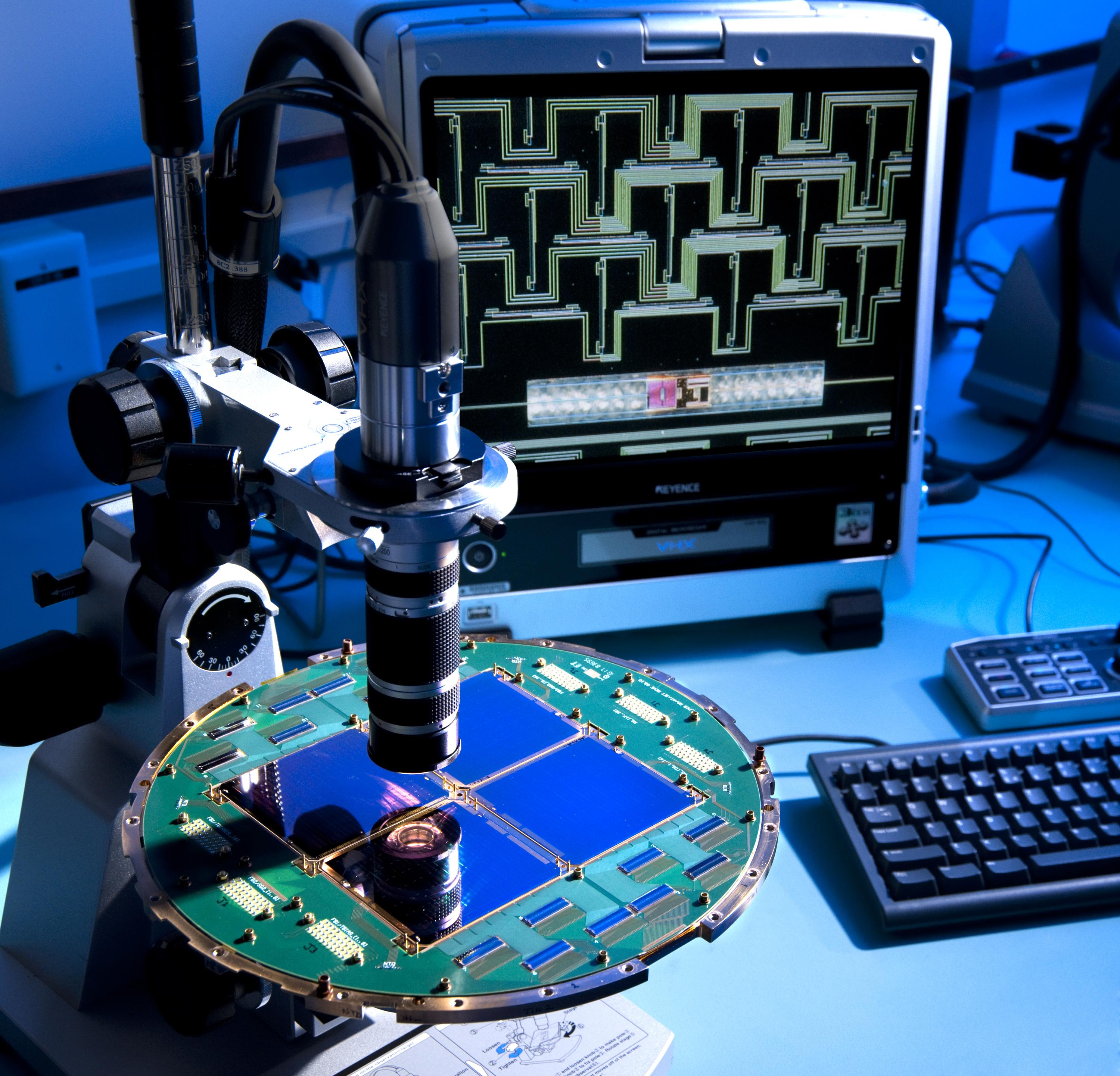 Superconducting Detectors for Study of Infant Universe The BICEP2 telescope at the South Pole uses novel technology developed at NASA's Jet Propulsion Laboratory in Pasadena, Calif. The focal plane shown here is an array of devices that use superconductivity to gather, filter, detect, and amplify polarized light from the cosmic microwave background -- relic radiation left over from the Big Bang that created our universe. The microscope is showing a close-up view of one of the 512 pixels on the focal plane, displayed on the screen in the background. Each pixel is made from a printed antenna that collects polarized millimeter-wavelength radiation, with a filter that selects the wavelengths to be detected. A sensitive detector is fabricated on a thin membrane created through a process called micro-machining. The antennas and filters on the focal plane are made from superconducting materials. An antenna is seen on the close-up shot in the background with the green meandering lines. The detector uses a superconducting film as a sensitive thermometer to detect the heat from millimeter-wave radiation that was collected by the antenna and dissipated at the detector. A detector is seen on the close-up shot in the background to the right of the pink square. Finally, a tiny electrical current from the sensor is measured with amplifiers on the focal plane called SQUIDs (Superconducting QUantum Interference Devices), developed at National Institute of Standards and Technology, Boulder, Colo. The amplifiers are the rectangular chips on the round focal plane. The focal planes are manufactured using optical lithography techniques, similar to those used in the industrial production of integrated circuits for computers.